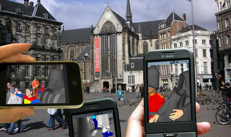 The flashmob is back! Sorry.. But anno 2010 it has renewed and reshaped its form. The Dam square in Amsterdam will be the location of the worlds' 1st Augmented Reality flashmob - 24th of April 2PM